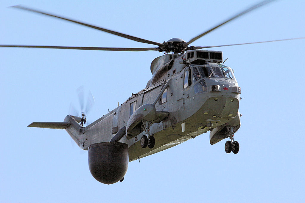 Sea King - RNAS Culdrose 2006